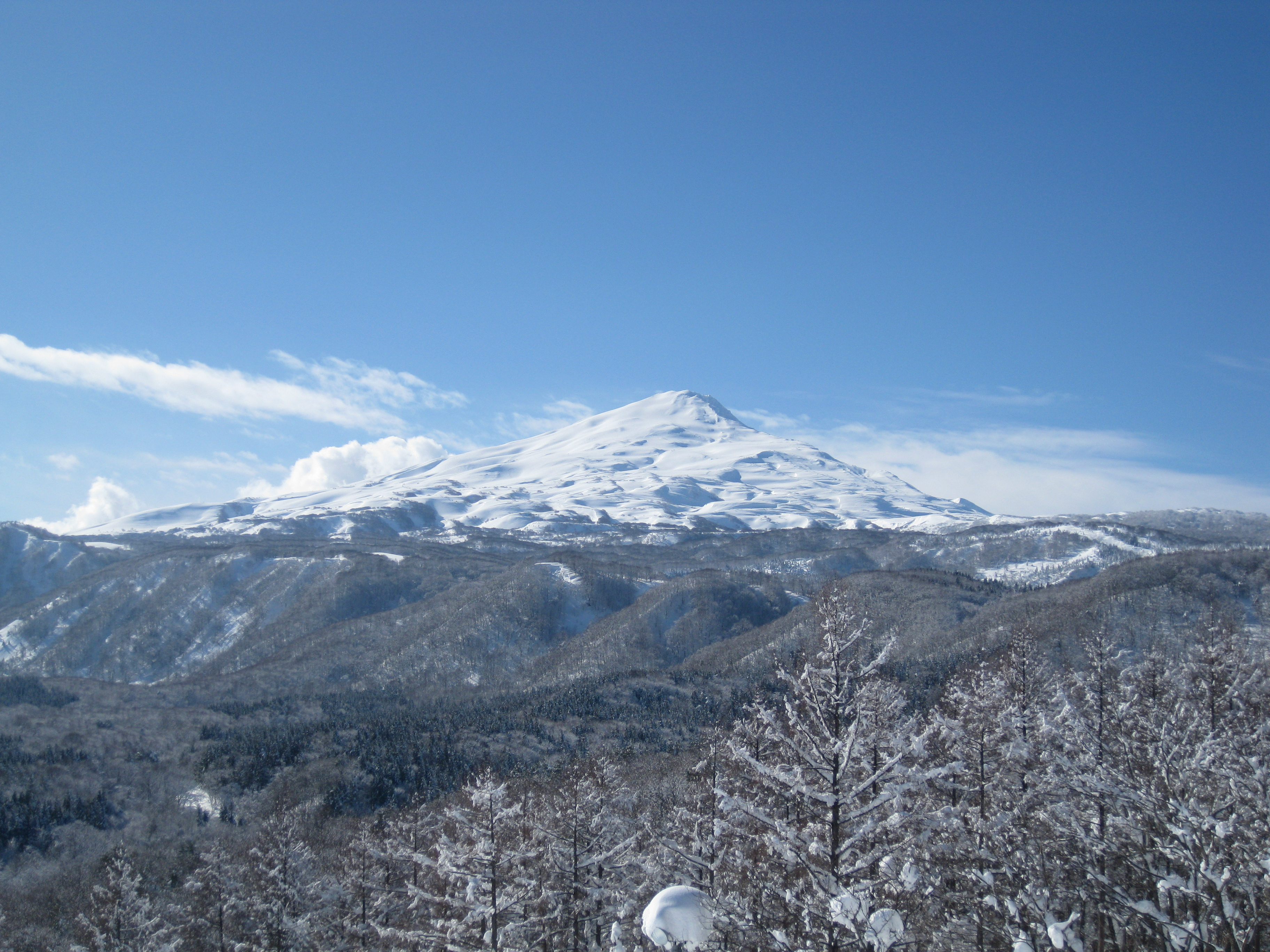 Mt. Chokai photographed from the top of Okojoland Ski Area. Chokai, Yurihonjo, Akita, Japan.